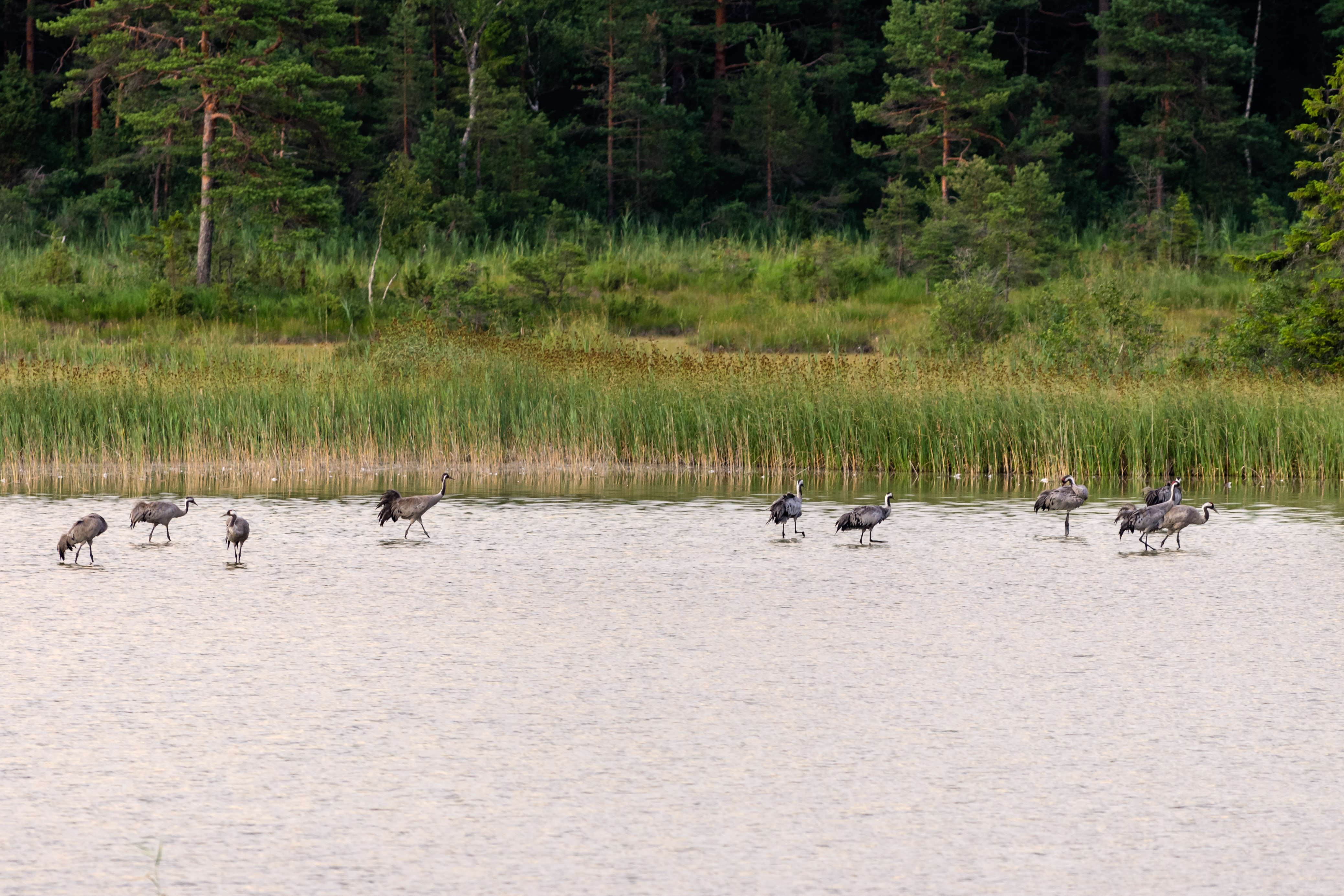 Grus grus in Valgejärv, Estonia.